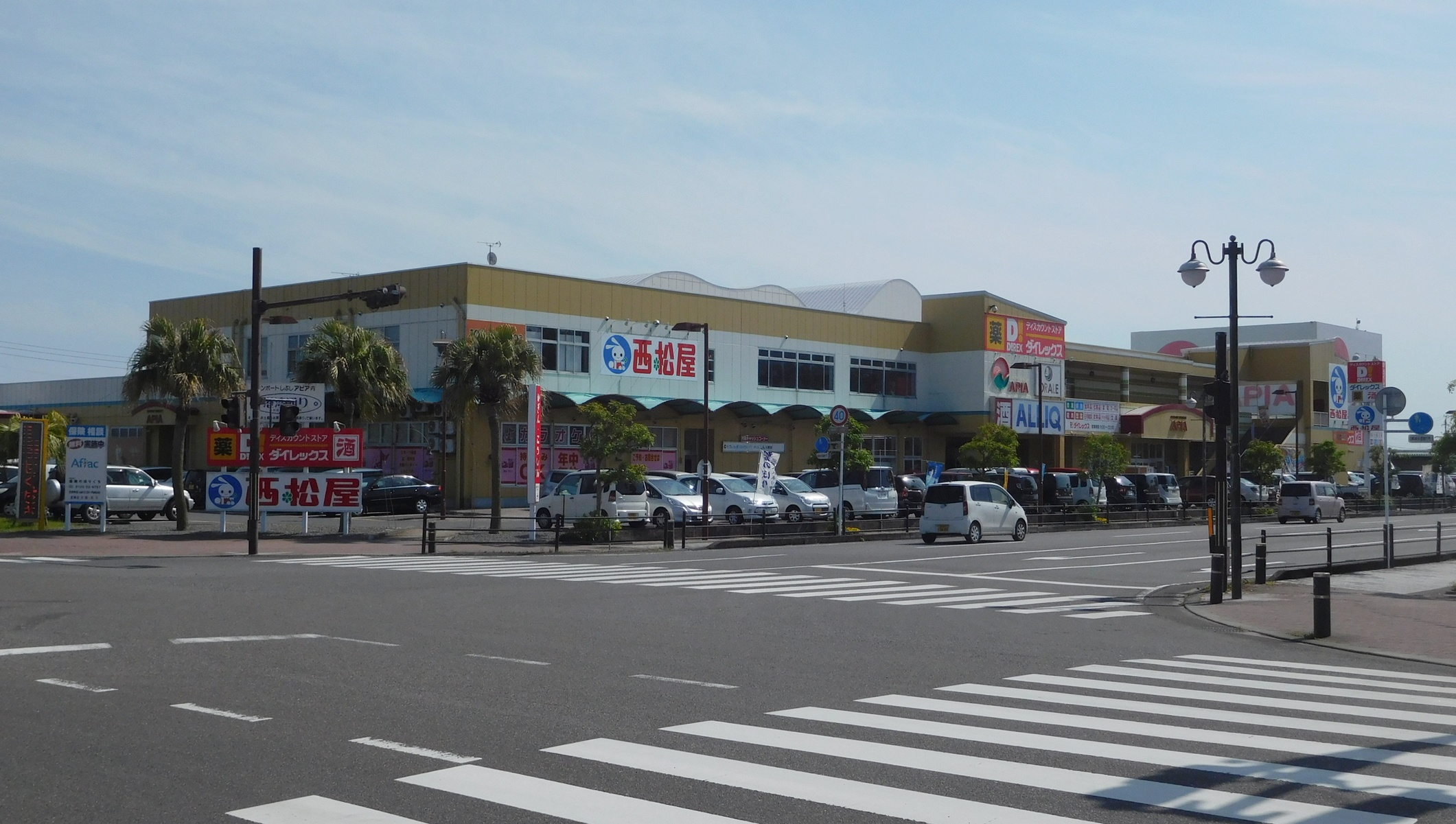 Sun Port Shibushi "APIA" Shopping Center (Shibushi City, Kagoshima, Japan)